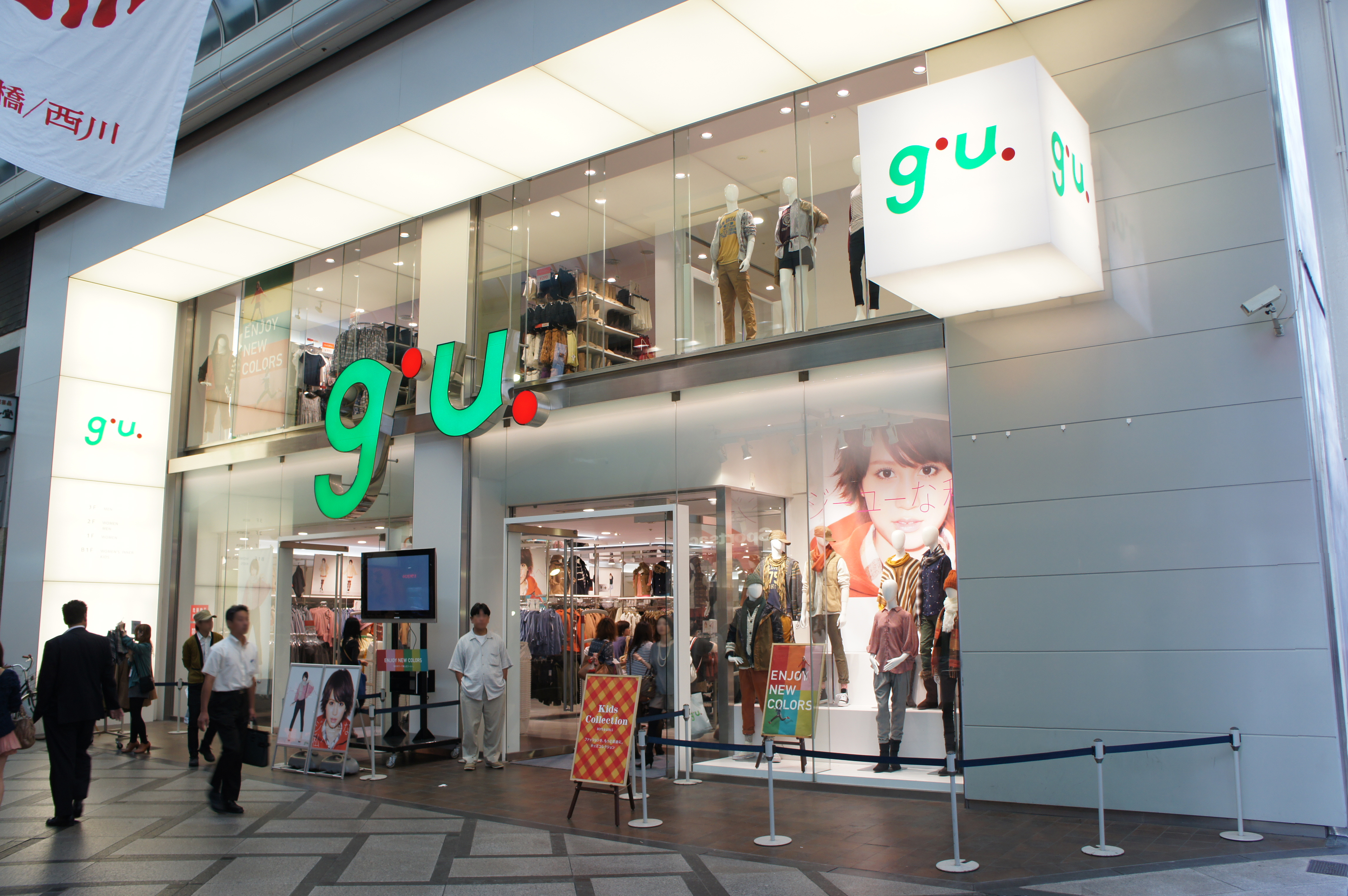 g.u. Shinsaibashi, 2-1-17 Shinsaibashisuji Chuo-ku Osaka-City Osaka Japan.